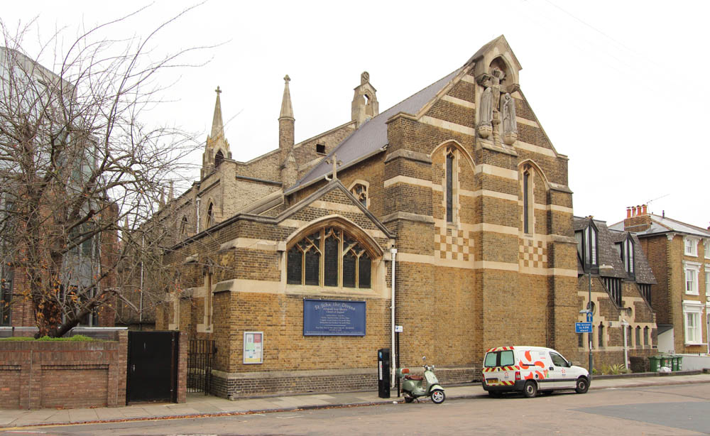 Parish church of St John the Divine, Kew Road, Richmond, southwest London, seen from the northwest